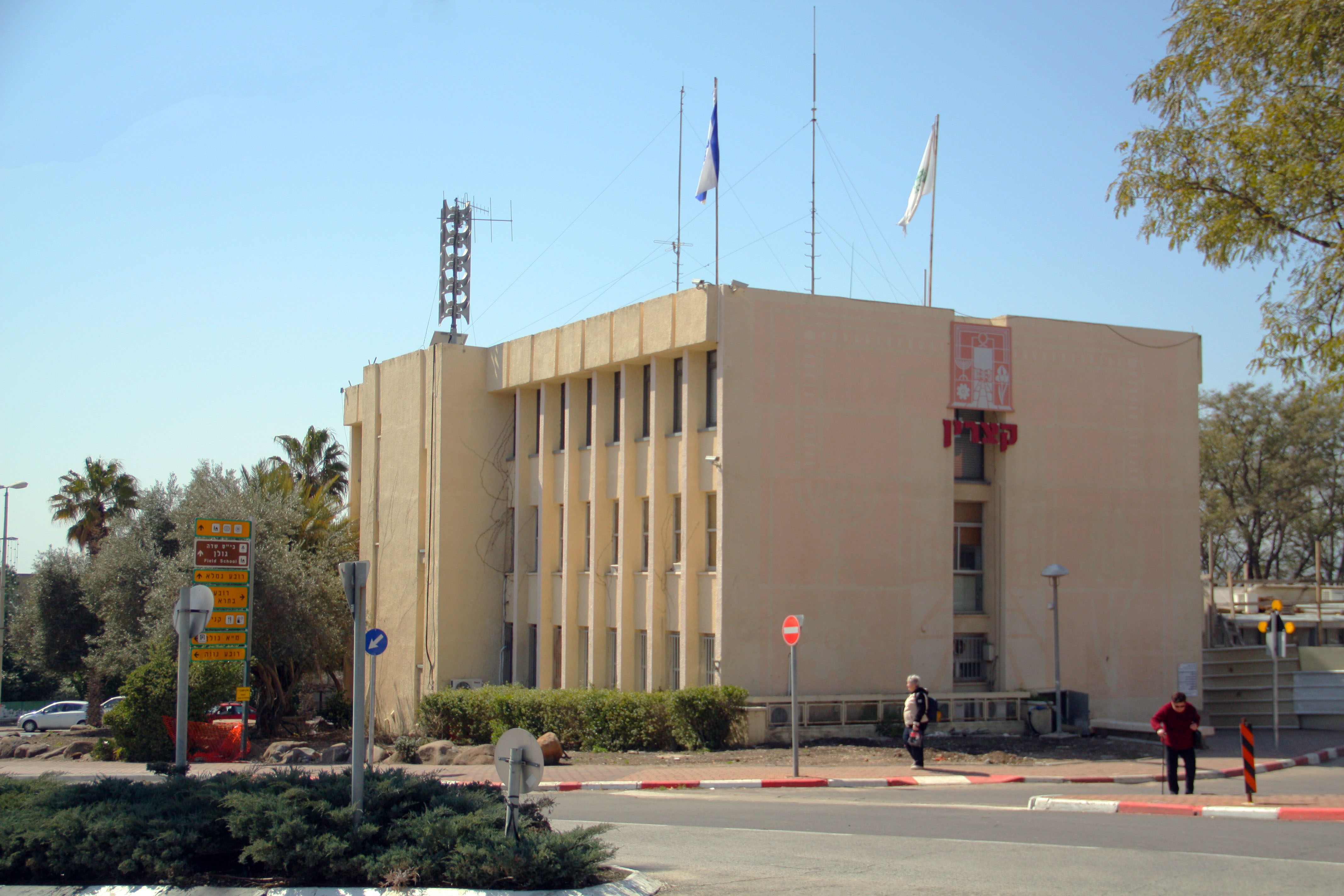 Katzrin city hall